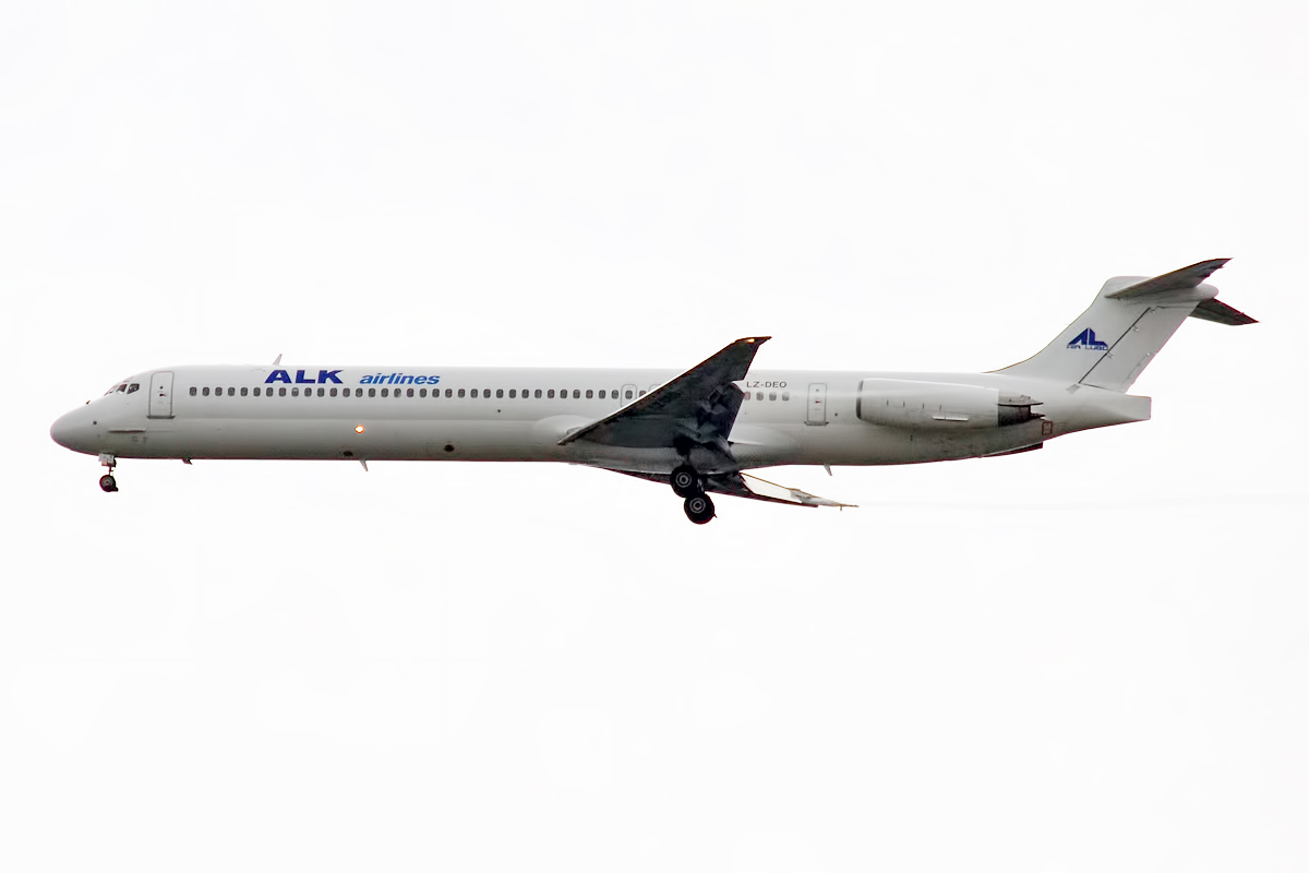 ALK Airlines, LZ-DEO, McDonnell Douglas MD-82